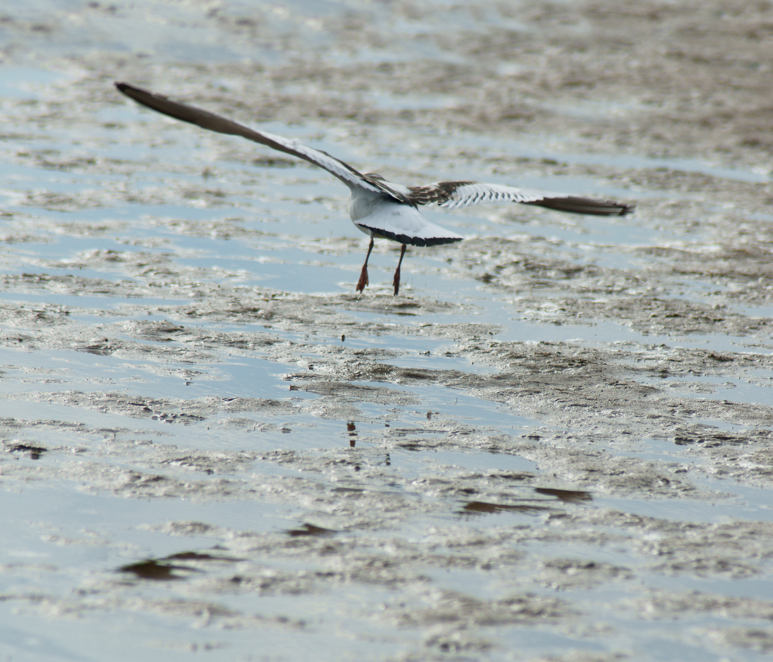 Little Gull (Hydrocoleus minutus) in Yyterin lietteet.